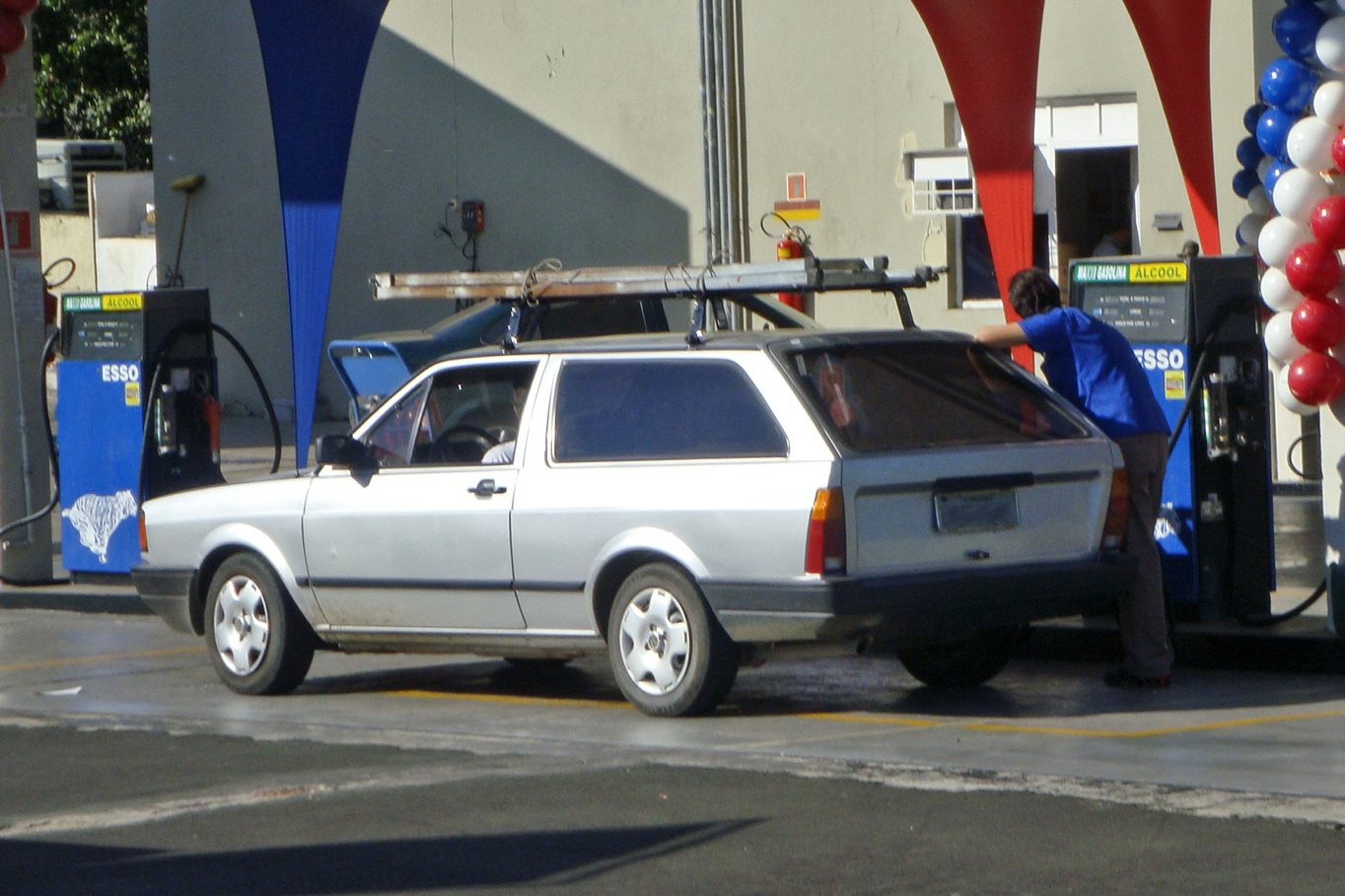 Neat ethanol (E100) powered Volkswagen Parati (sold as the "Fox" in North America) fueling alcohol, Piracicaba, Sao Paulo, Brazil